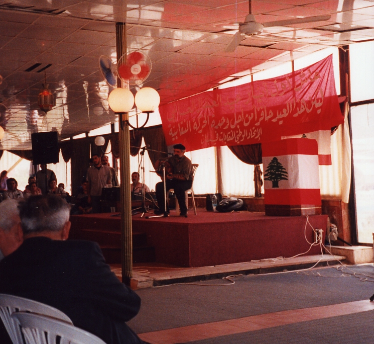 May Day celebrations in Beirut, Lebanon, 2001. Marcel Khalife performing.